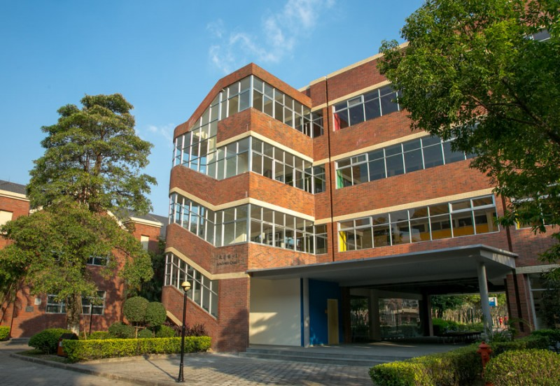 approved by Ulink College to be used